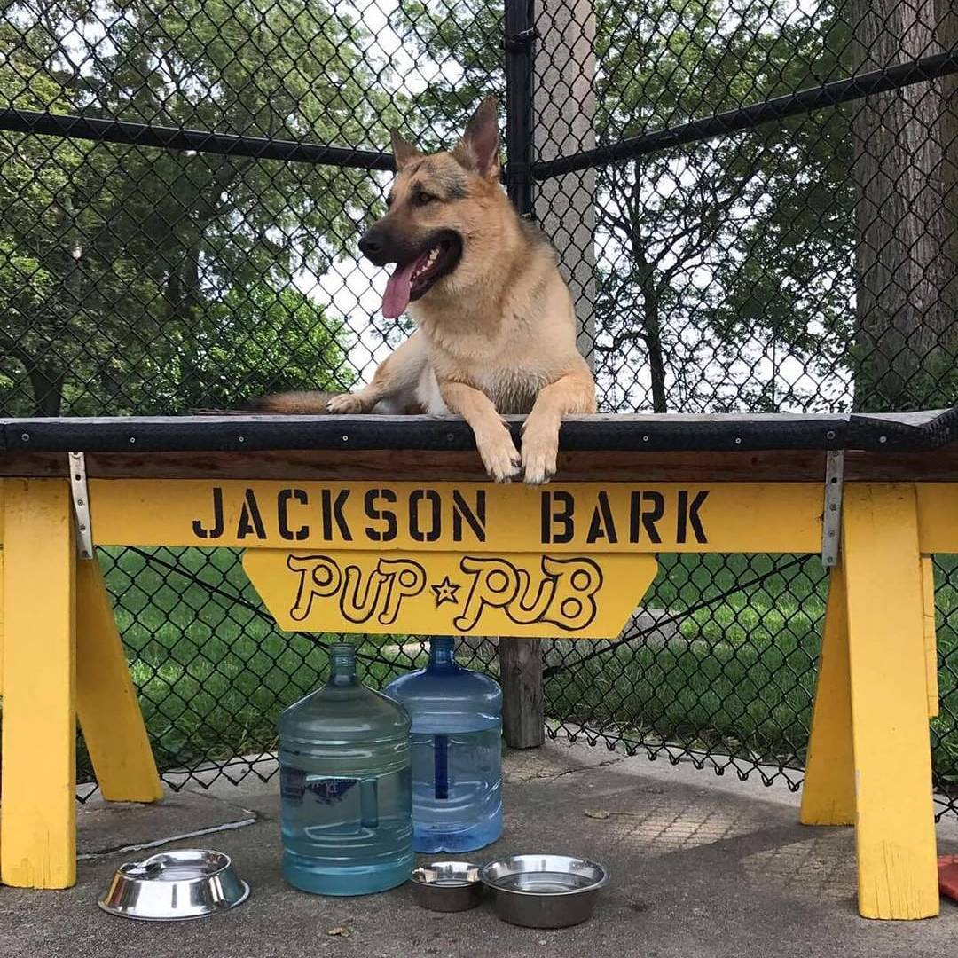 Pup Pub, one of two water stations